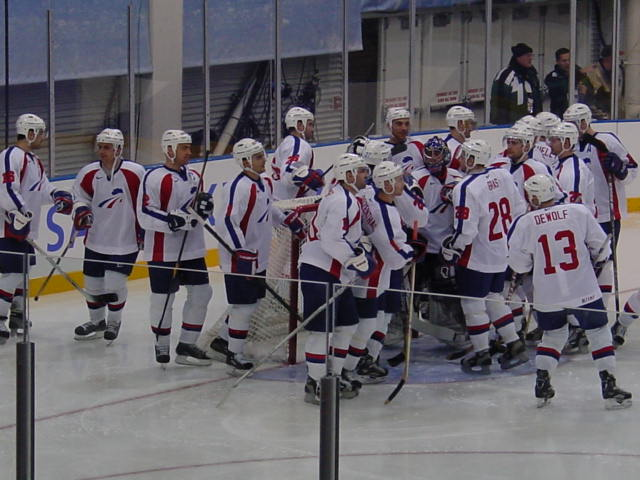 The French men's ice hockey team during a game against Slovakia at the 2002 Winter Olympics.